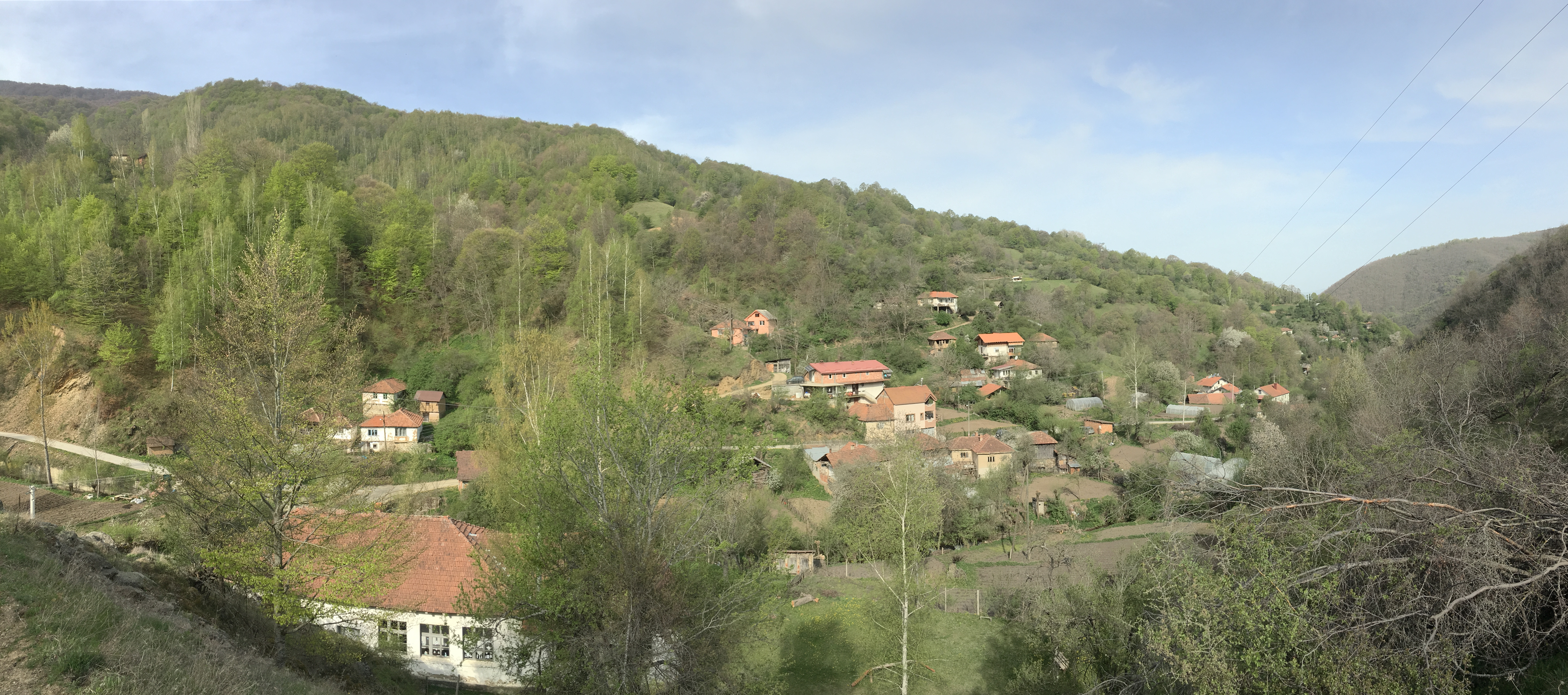 A panoramic view of the village of Stanci